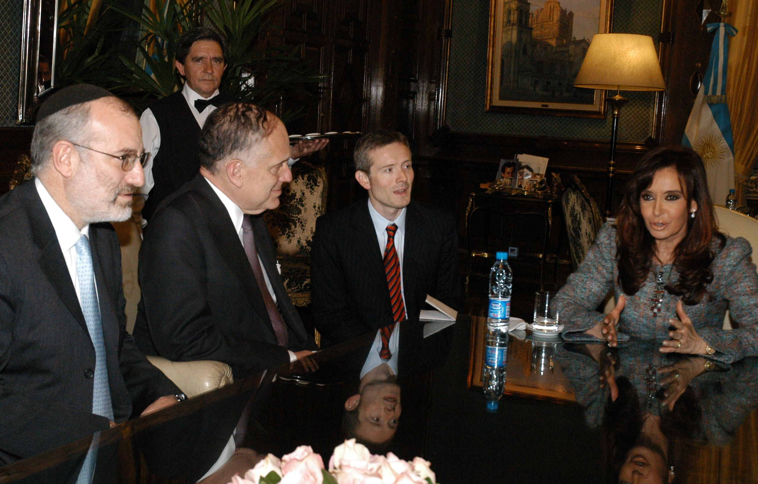 World Jewish Congress leaders meet with Argentine President Cristina Fernández de Kirchner in Buenos Aires, June 2008